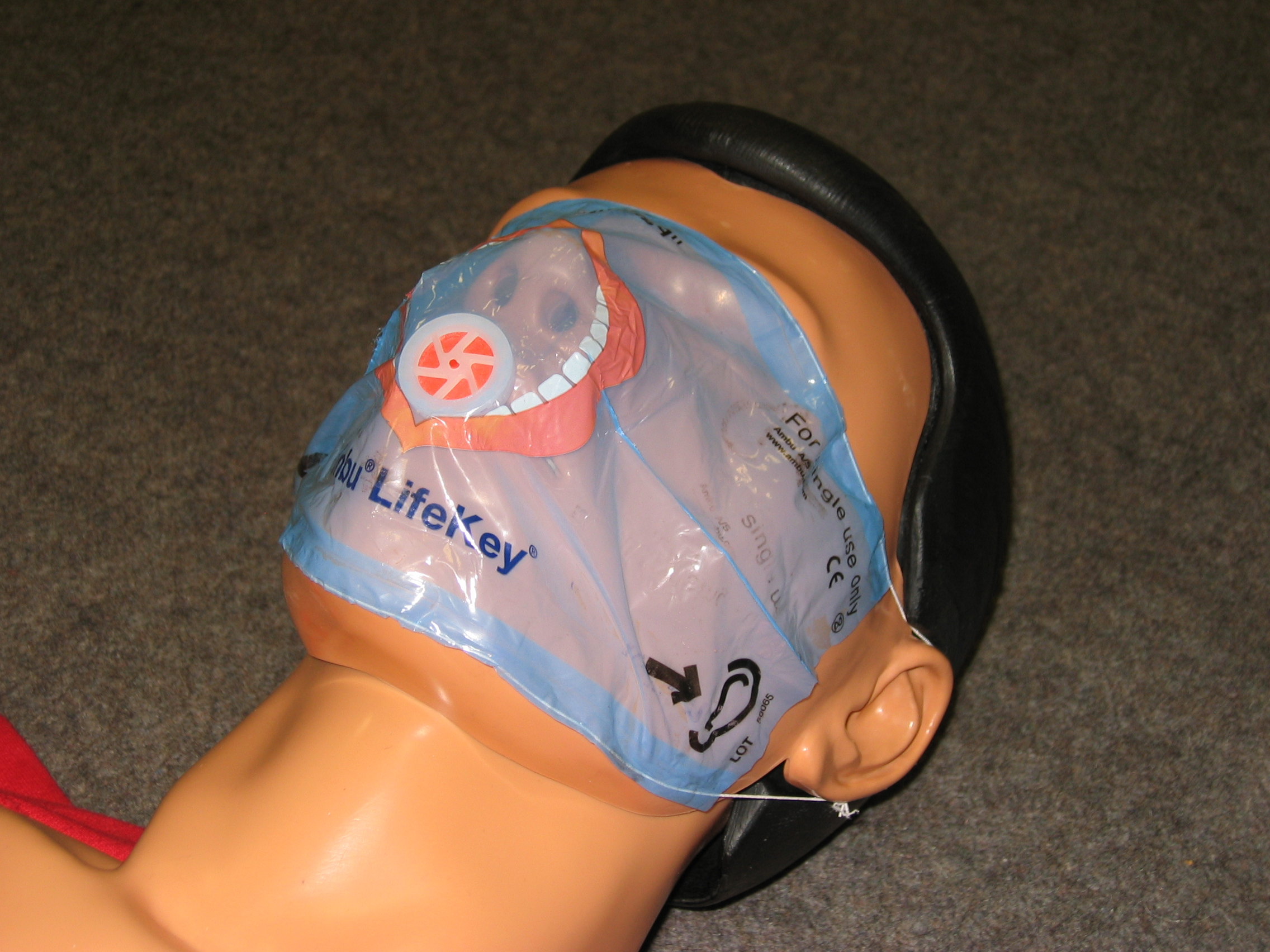 Life-Key